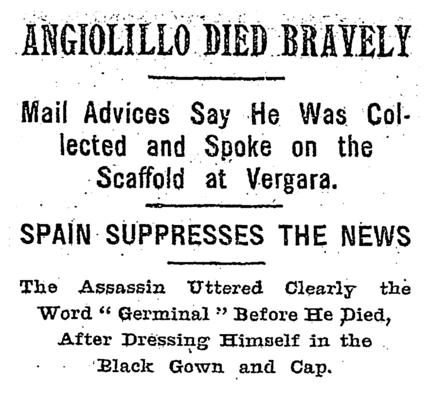 The New York Times covering the execution of Michele Angiolillo.